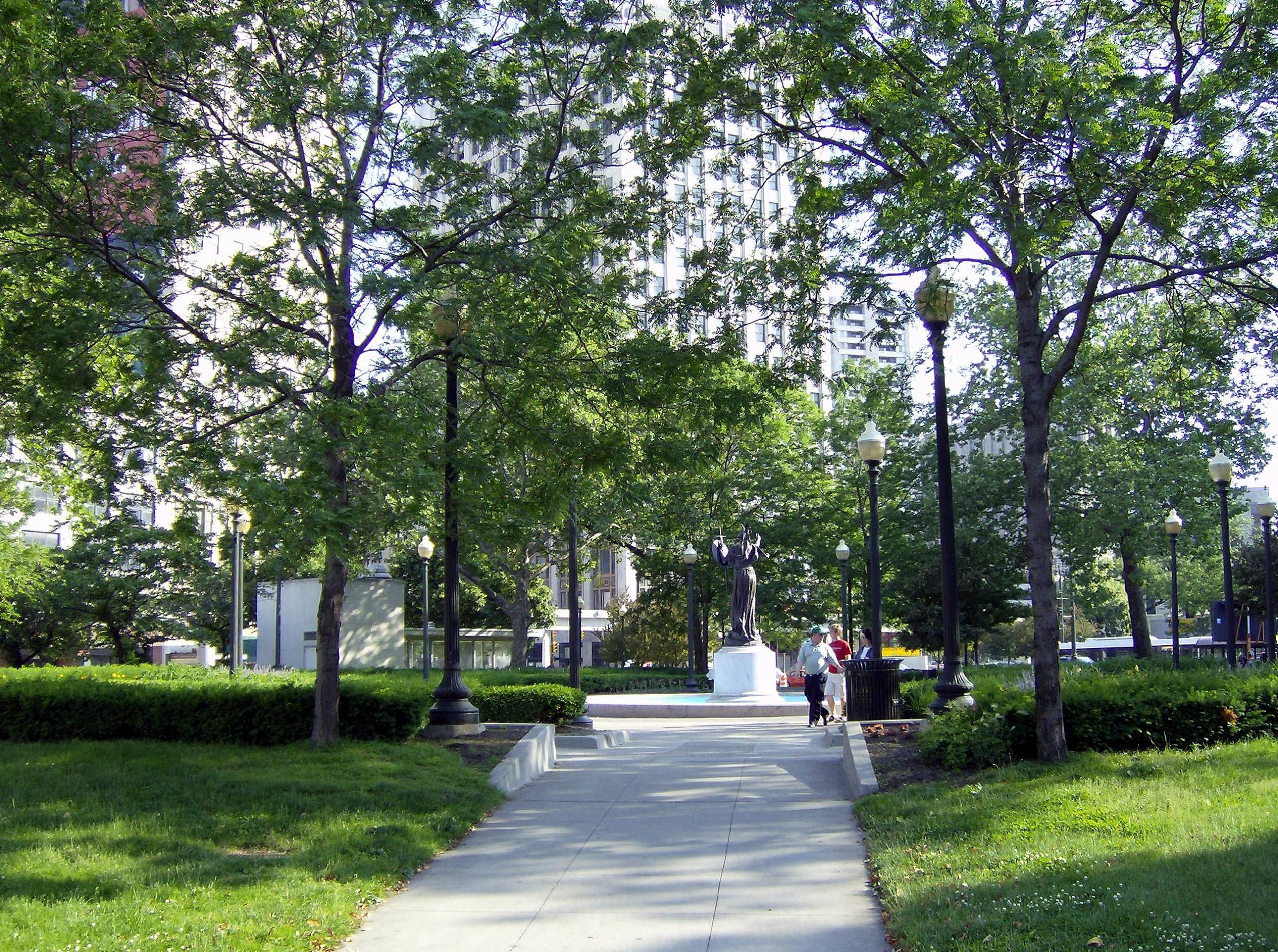 Grand Circus Park in Detroit, Michigan, United States.